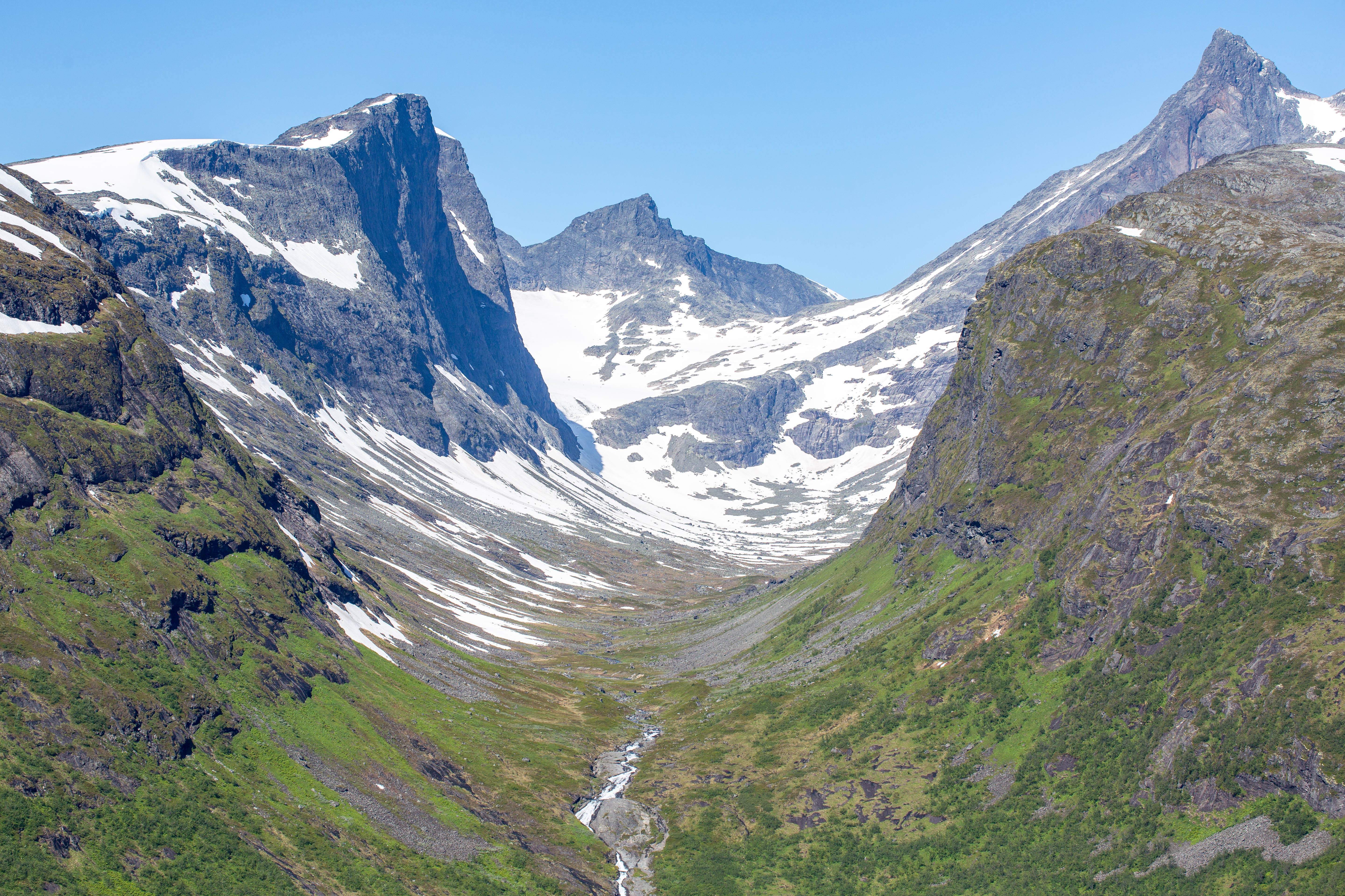 View of Midtmaradalen